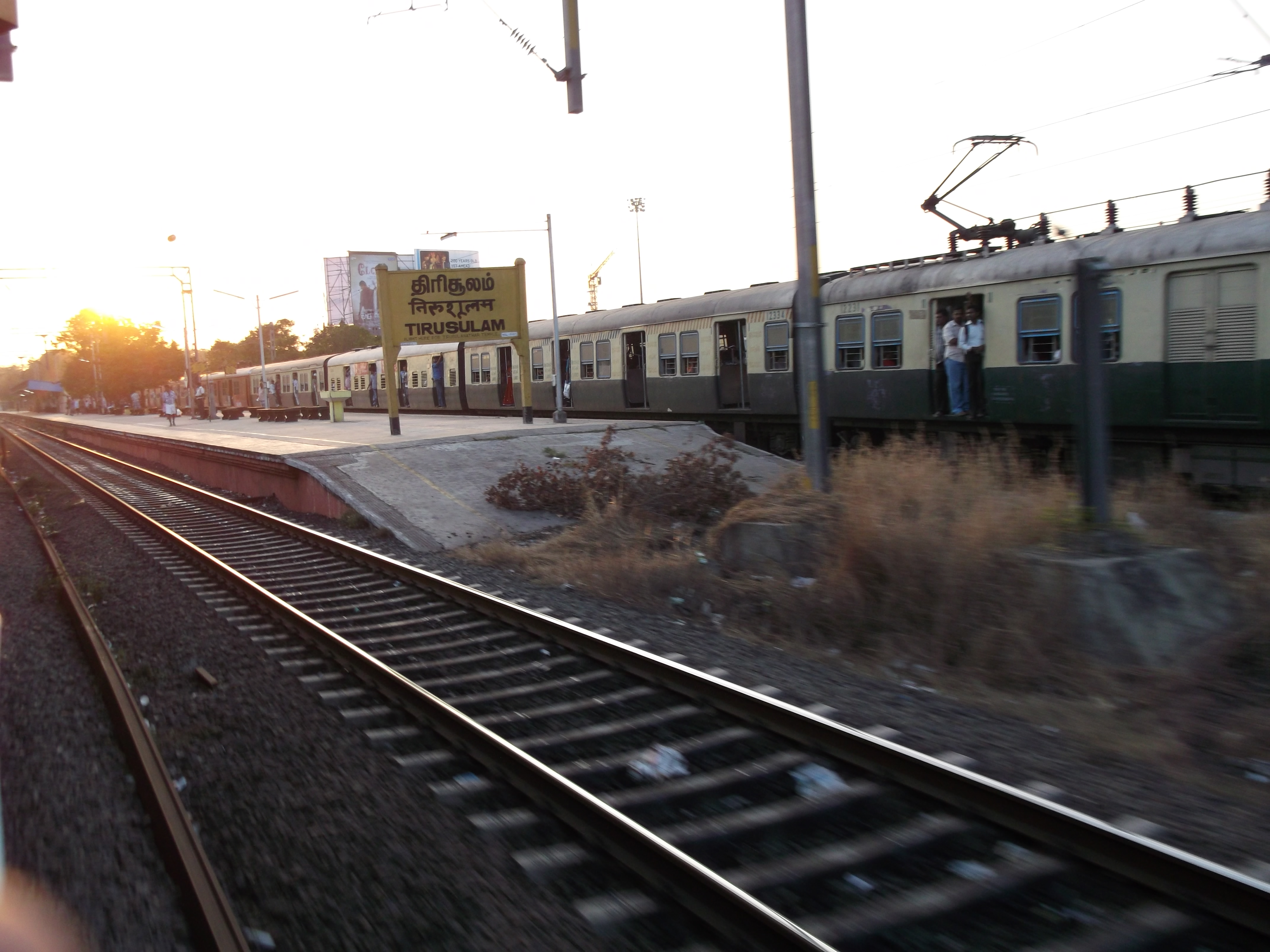 Tirusulam railway station, View 2, taken on 27-Jan-2013 at 6:00 pm.